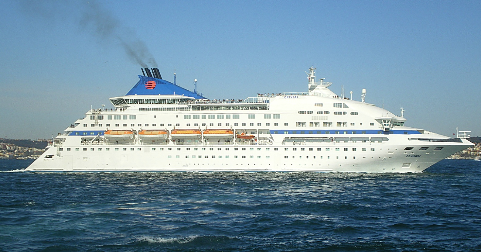 Cruise ship MS Cristal departing from Istanbul